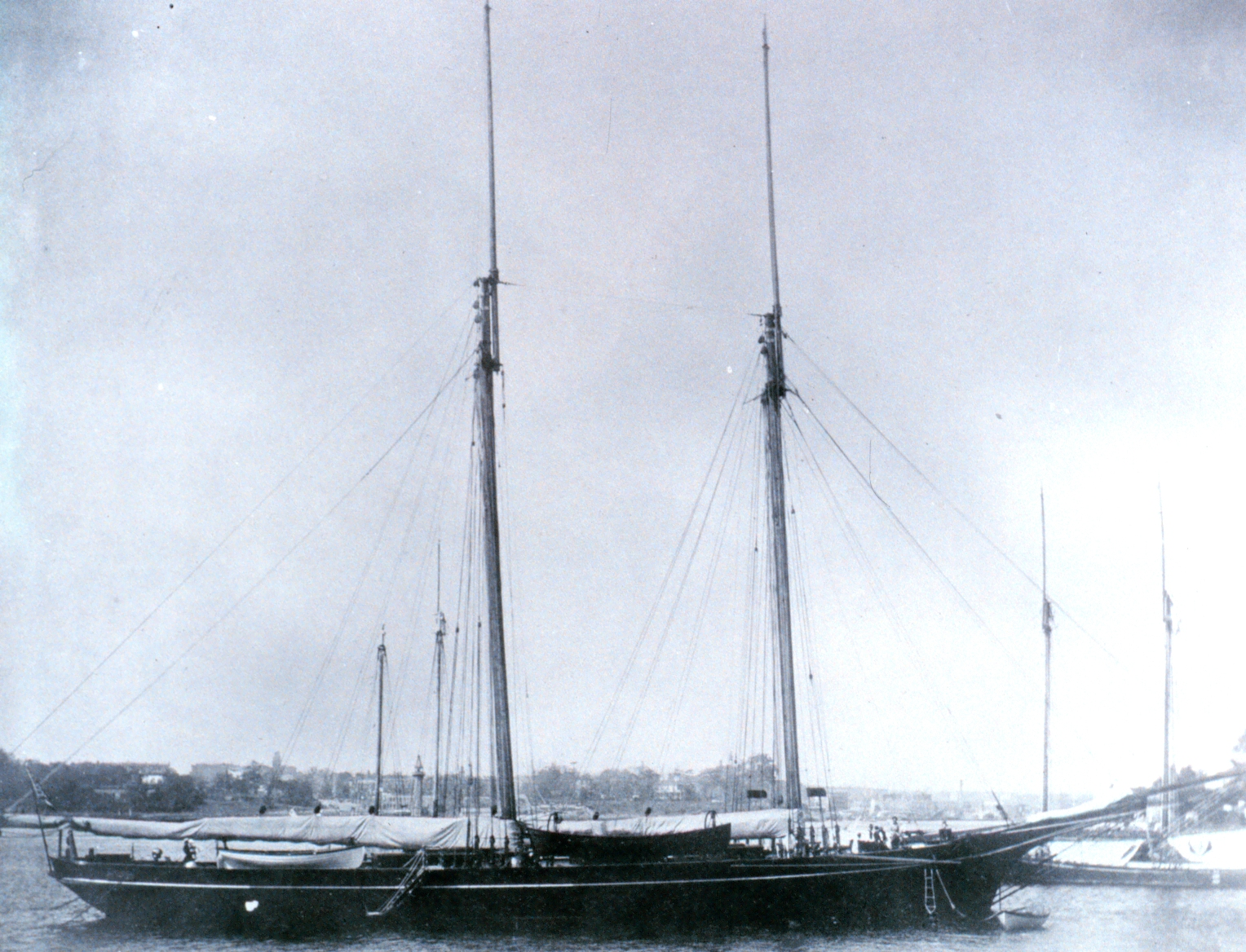 USC&GS Eagre